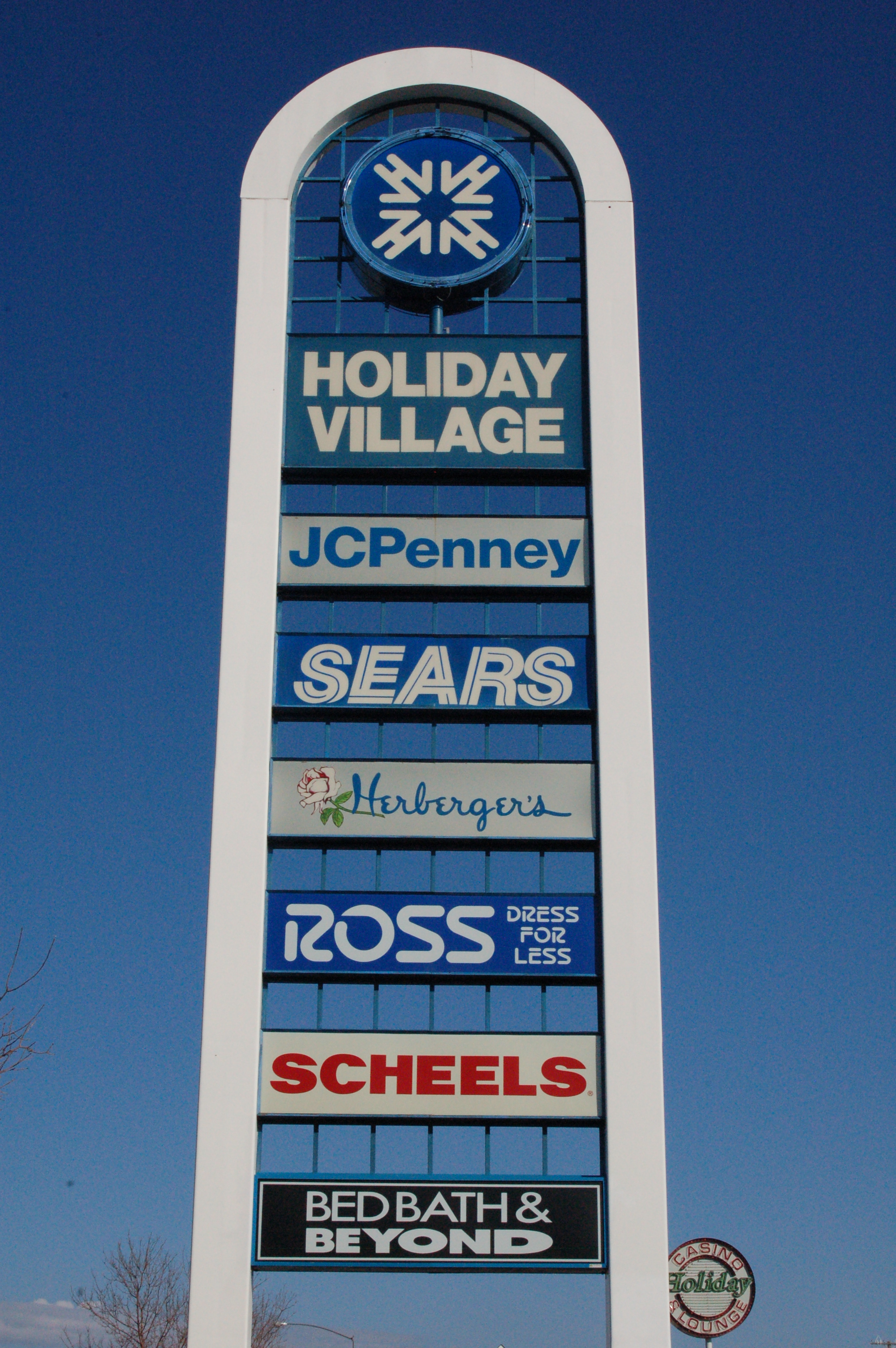 Road sign for Holiday Village Mall, located in Great Falls, Montana